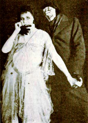 Still from the American film serial The Tiger's Trail (1919) with Ruth Roland and Harry Moody as "Tiger Face," on page 1625 of the March 22, 1919 Moving Picture World.